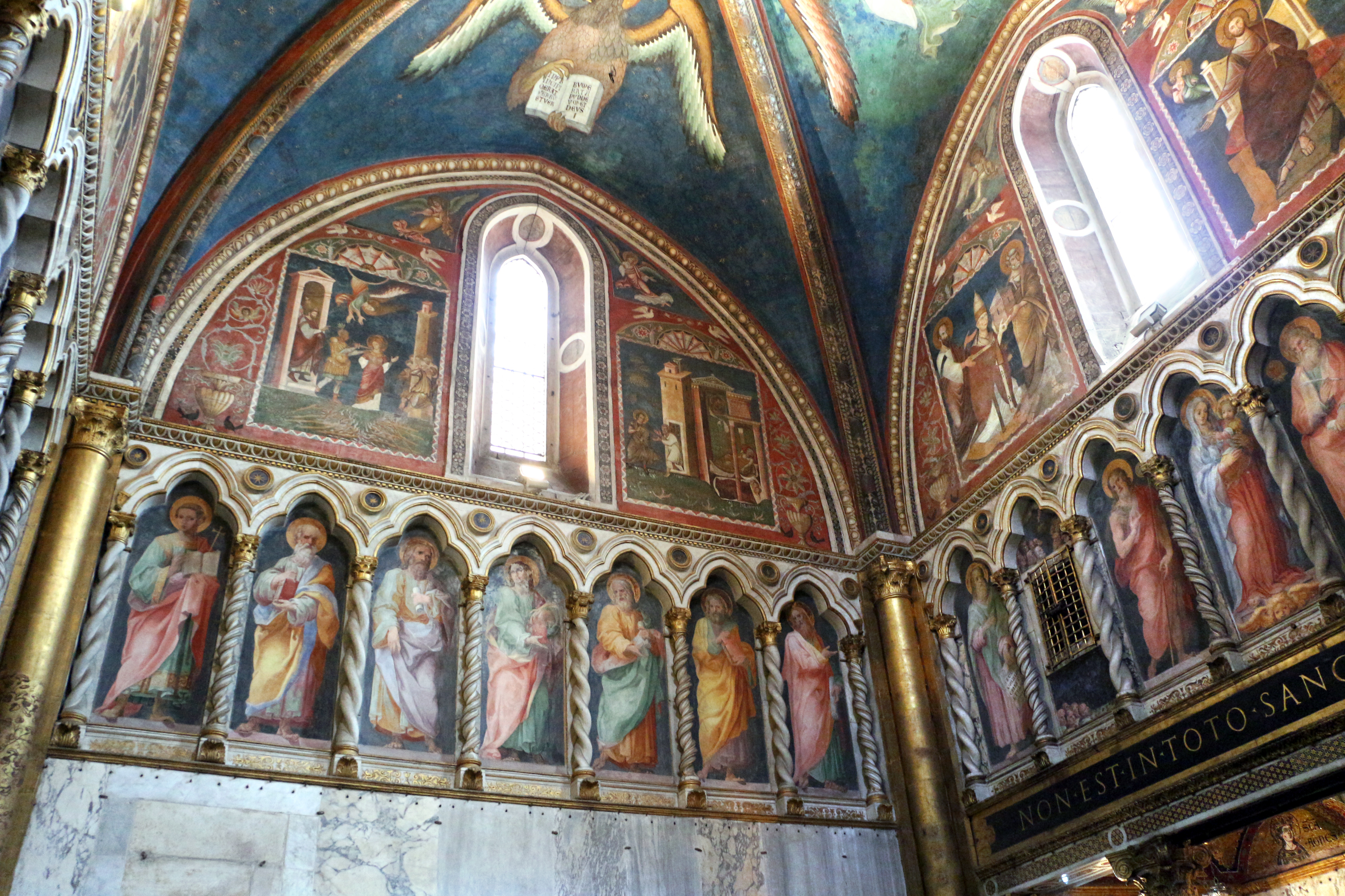 Sancta Sanctorum (Rome)